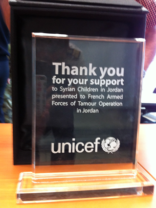 UNICEF Award